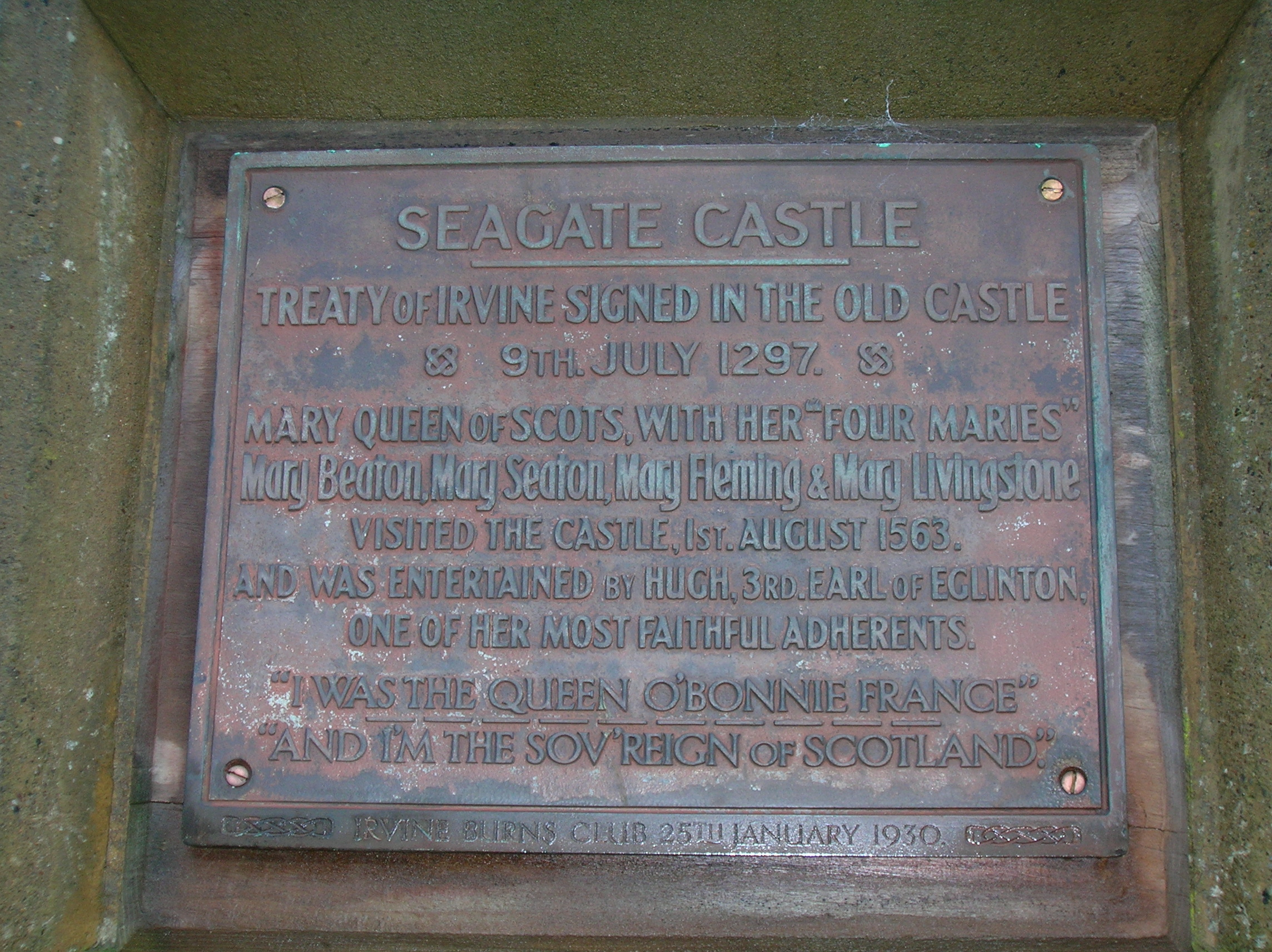 Plaque at Seagate castle, Irvine, North Ayrshire, Scotland